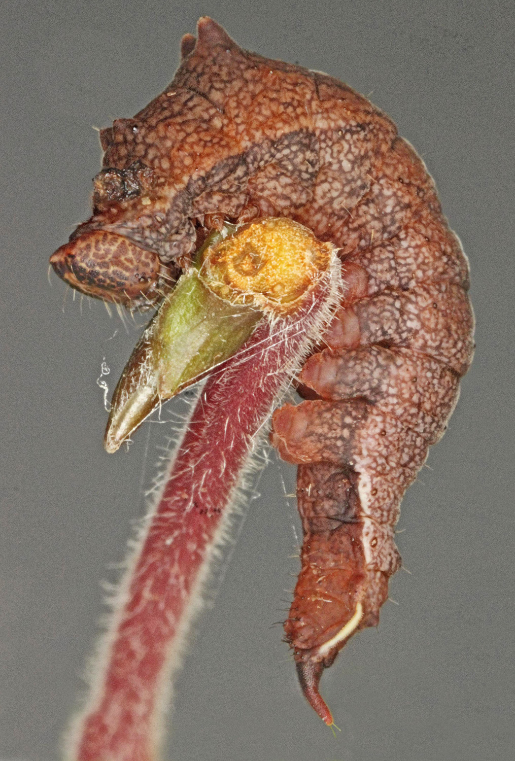 Cilix glaucata, Chinese Character, Trawscoed, North Wales, Aug 2013